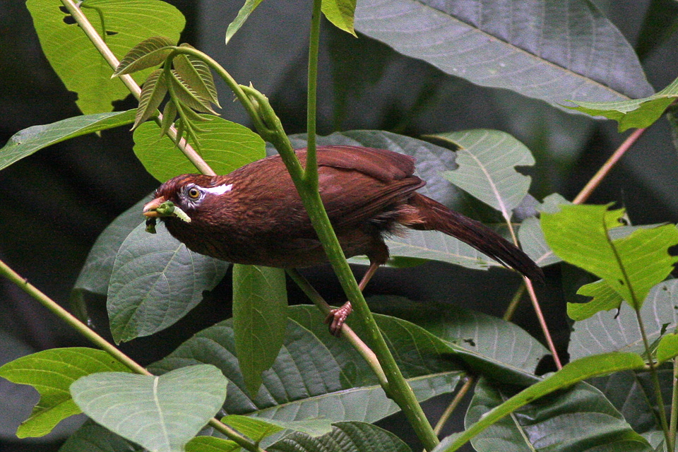 Chinese Hwamei (Garrulax canorus) at Emei Shan, Sichuan, restricted to the base of the Mountain